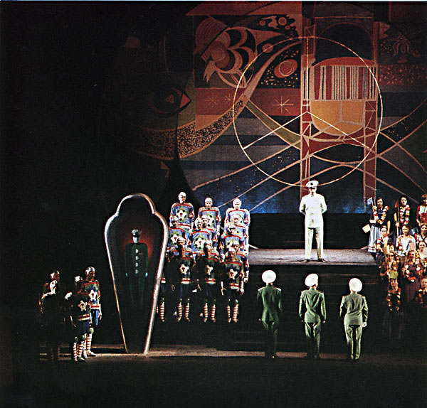 Scene from the premiere of Karl-Birger Blomdahl's 1959 opera Aniara in Stockholm